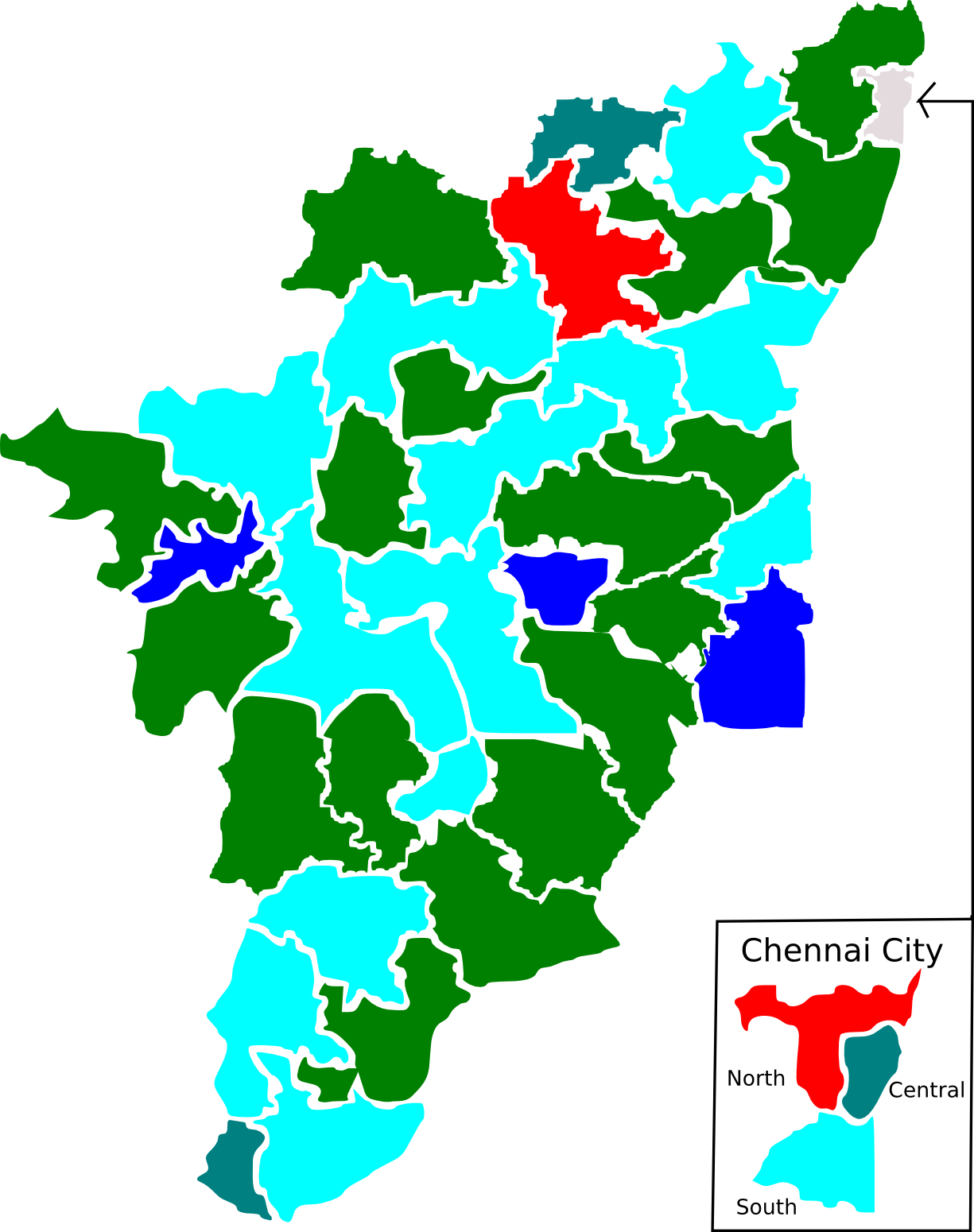 1977 Lok Sabha Election map for Tamil Nadu. Map is based on ECI drawn map. Results are based on ECI website.